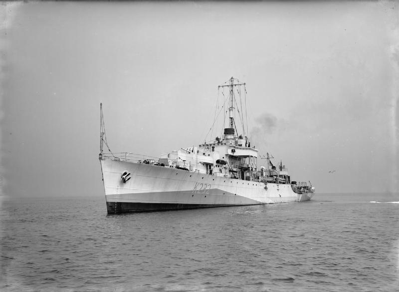 Photograph of British frigate HMS Tay.